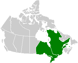 Map: Central Canada (political); based on Image:Canada provinces blank vide.png